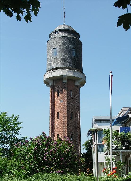 Plön, Germany: Watertower, photo 2003